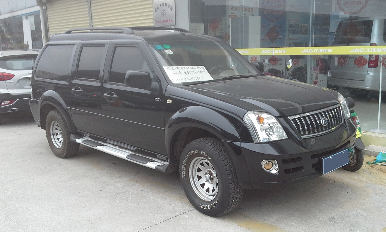 Foday Explorer II photographed in Zhanjiang, Guangdong province, China.